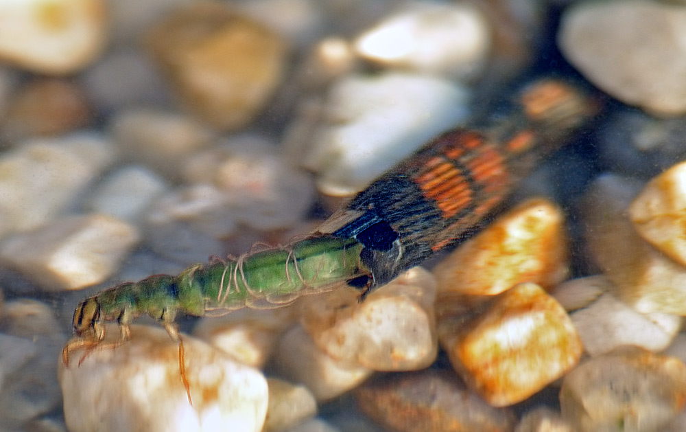 This image shows an about 2 cm large Trichoptera grub in a garden pond.